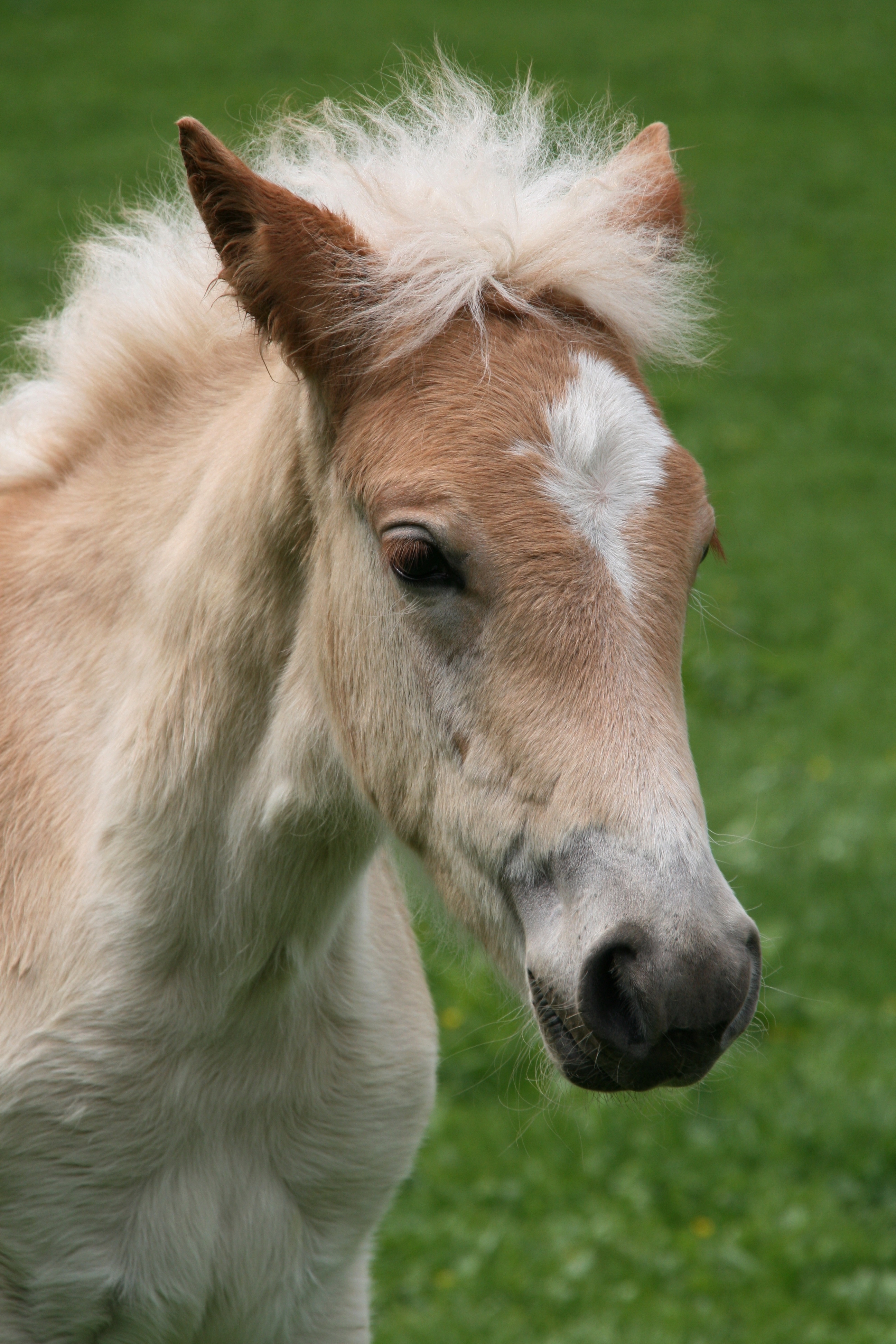 The Haflinger is a breed of horse developed in Austria and northern Italy during the late 1800s.